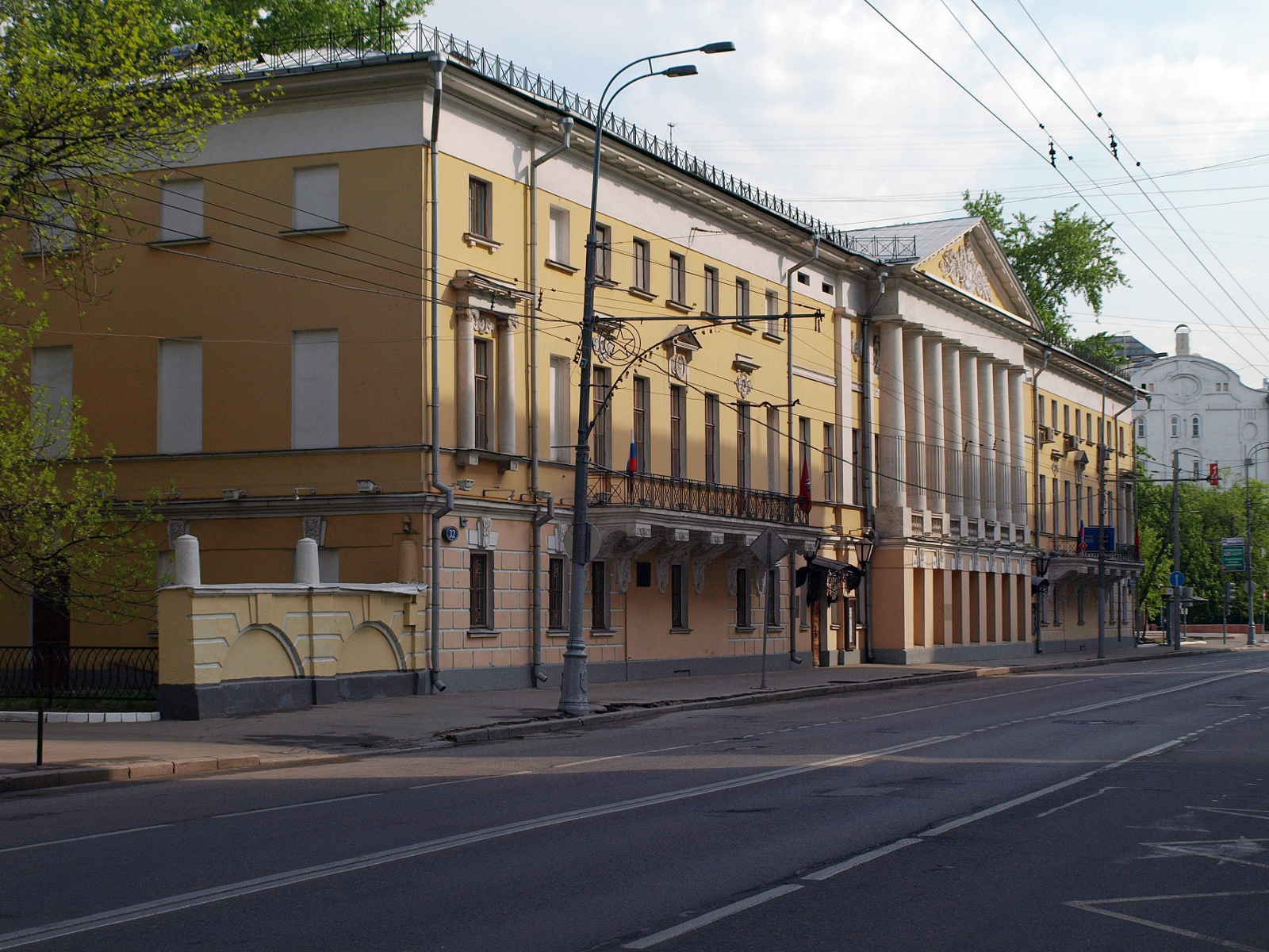 32, Prechistenka, Moscow - former Polivanov Gimnasia (private high school)